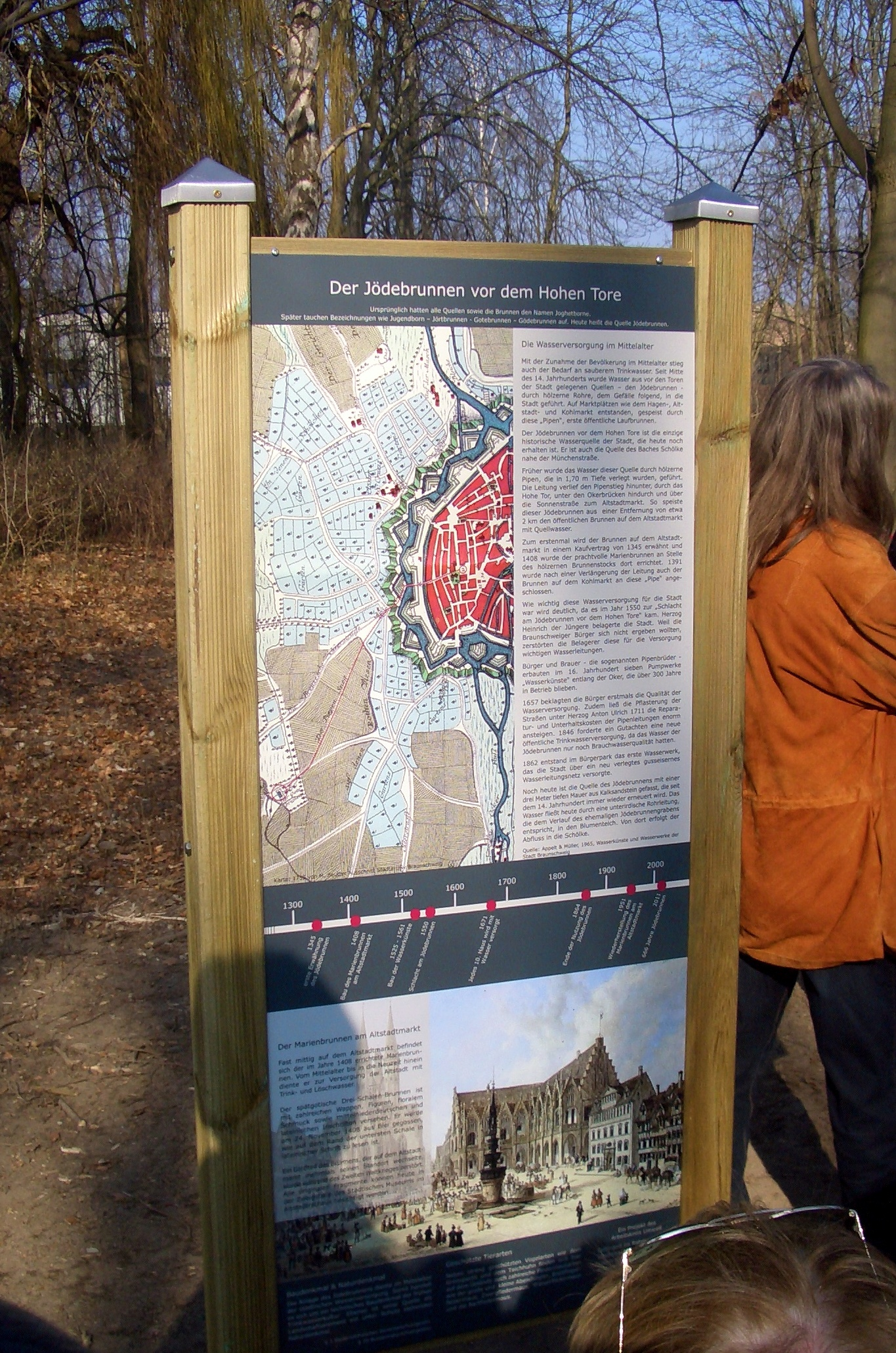 Information Board at Joedebrunnen